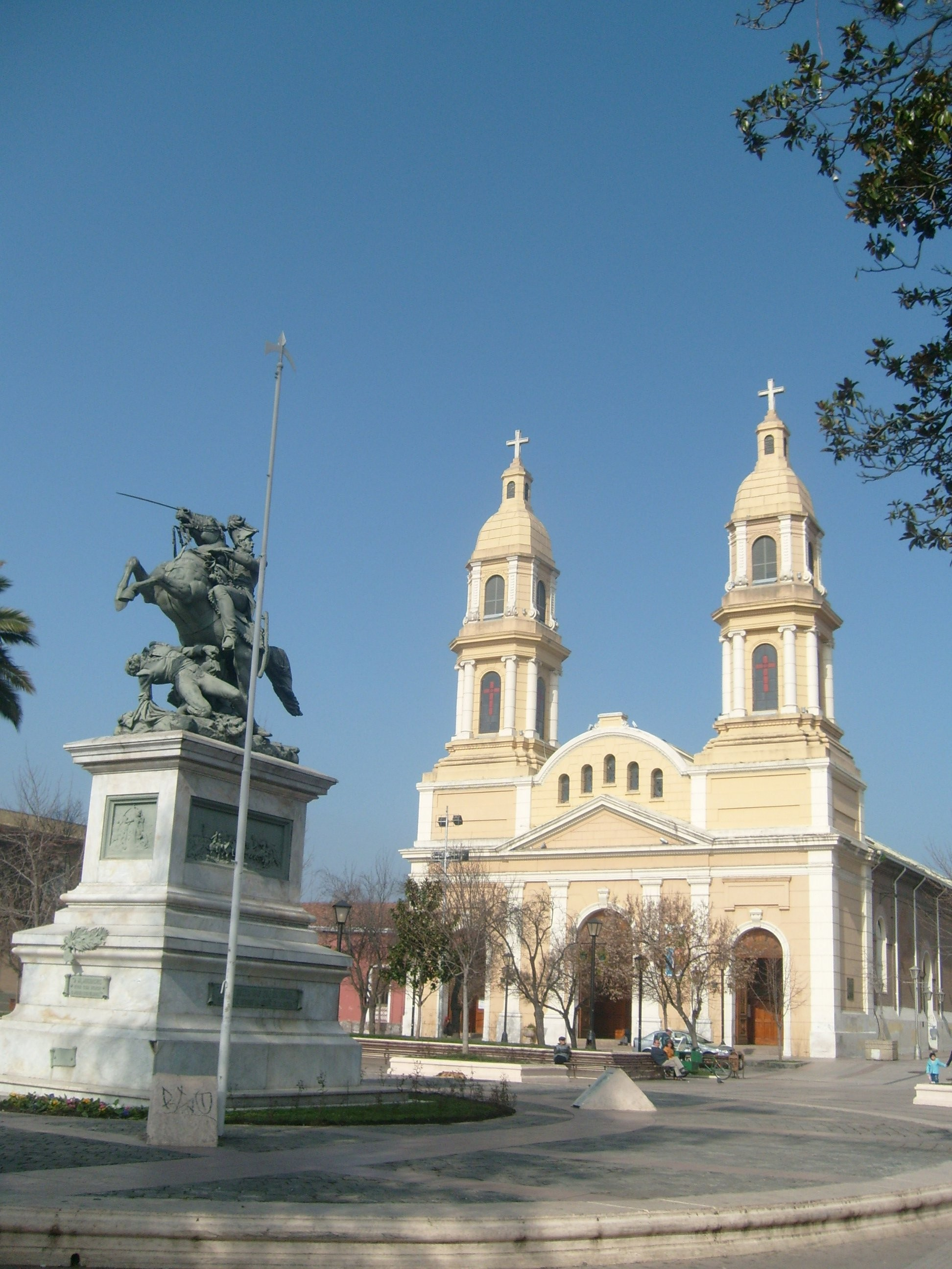 Sagrario de Rancagua, at Plaza de los Heroes, it is Cathedral of the city